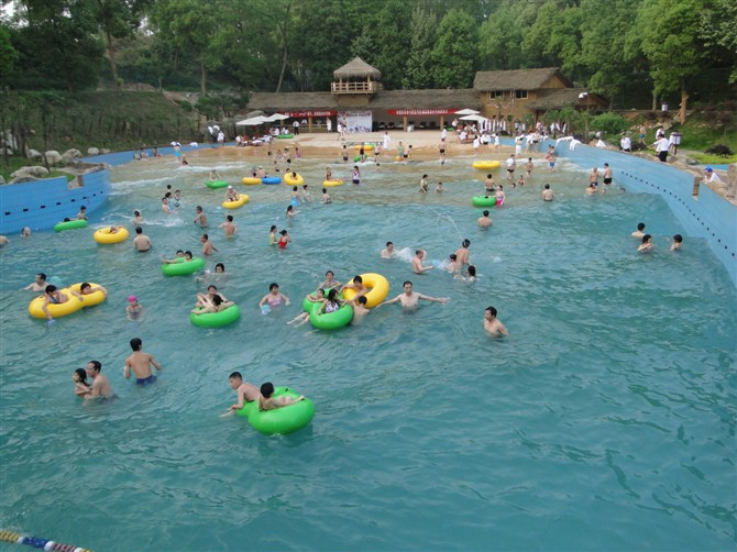 Huitang Hot Spring, located in Huitang Town, NingXiang, Hunan, China. It is a well-known tourist attraction. This photo shows The Huitang Hot Spring Resort.